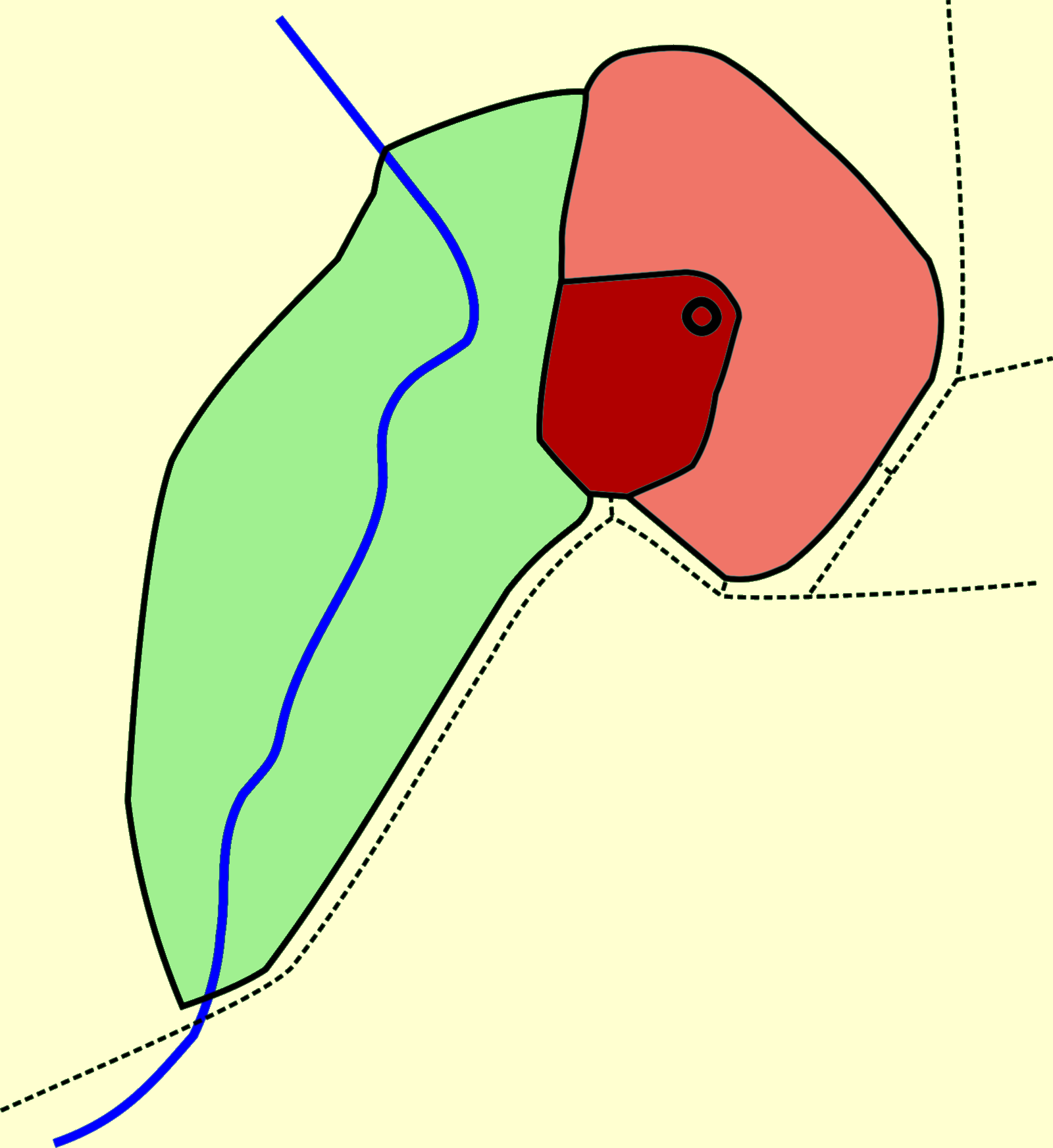 Diagram of Launceston Castle, town and deer park; after Peter Herring (2003) Castle area Town Deer park Colour per WP:WikiProject Maps/Conventions